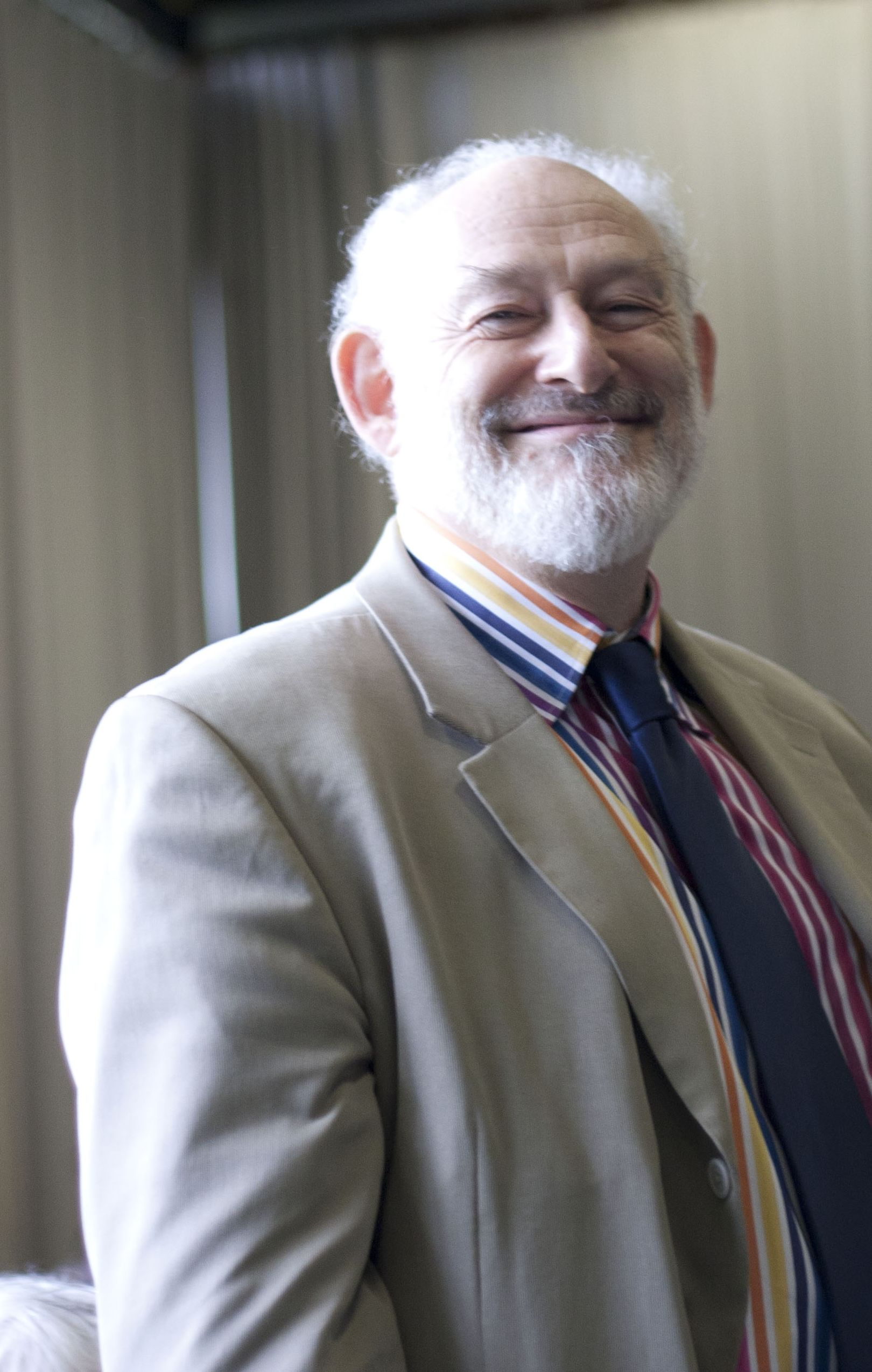 Dr. Sydney Spiesel at the Shimer College commencement ceremony, May 5, 2012. Photo licensed CC-BY 2.0 by creator.